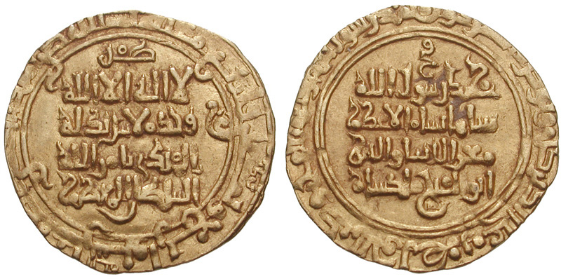 ISLAMIC, Seljuks. Great Seljuk. Jalal al-Dawlah Malikshah I. AH 465-485 / AD 1072-1092. AV Dinar (2.90 g, 3h). Uncertain mint. Dated AH 484 (AD 1091/2). Kalima, name of Abbasid caliph al-Muqtadi, and “al-sultan al-mu’azzam” in four lines; “zirmad(?)” above; mint formula and AH date in outer margin / Continuation of Kalima and name and titles of Malik Shah in four lines; “fateh” above; Quranic sura (XXX.3-4) in outer margin. Hennequin -; Album 1674; Zeno 38503 (this coin). Good VF.